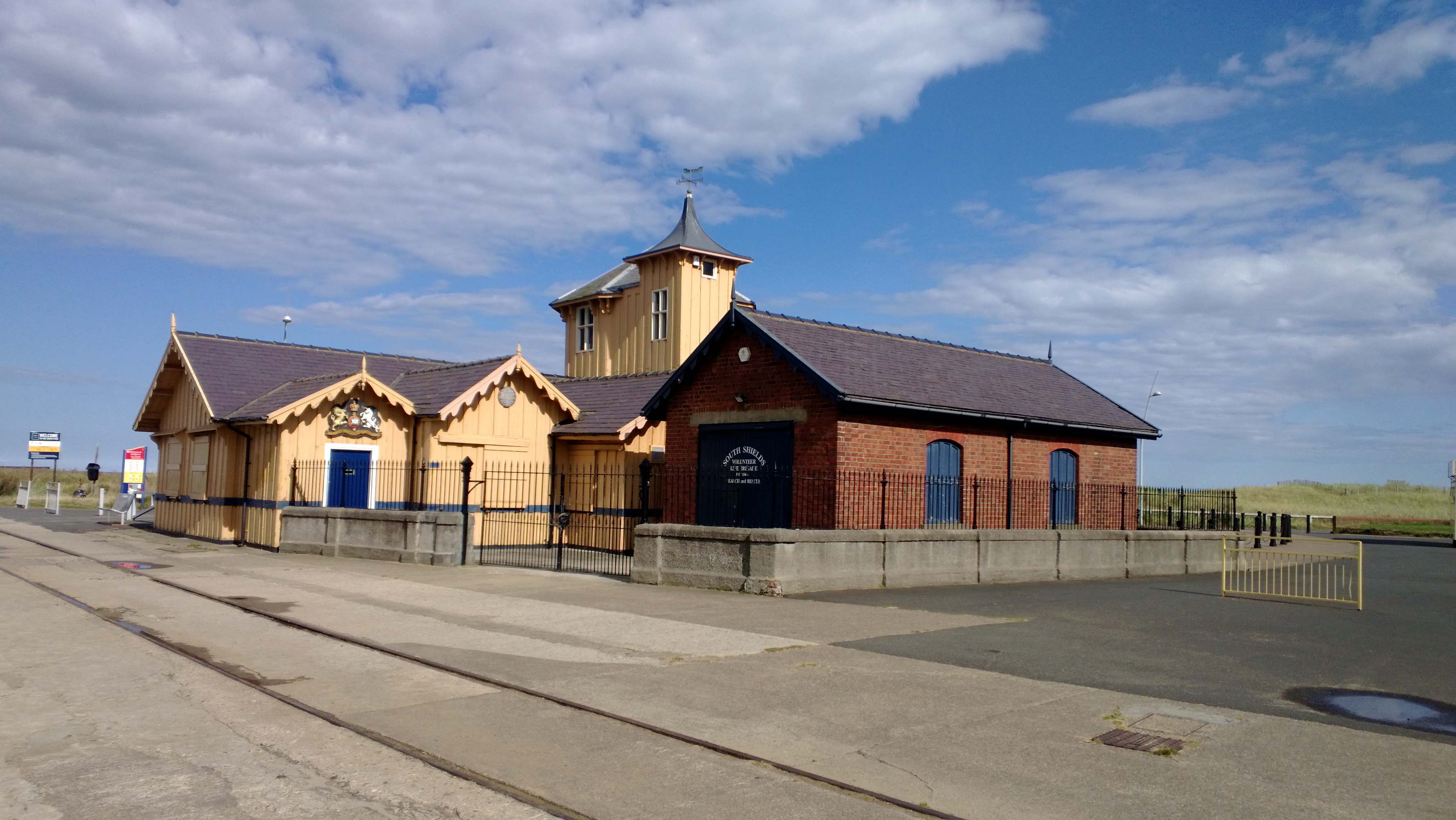 Watch House of the South Shields Volunteer Life Brigade, an active land-sea rescue organisation established in 1866; a Grade II listed building of 1867 (tower added 1875).